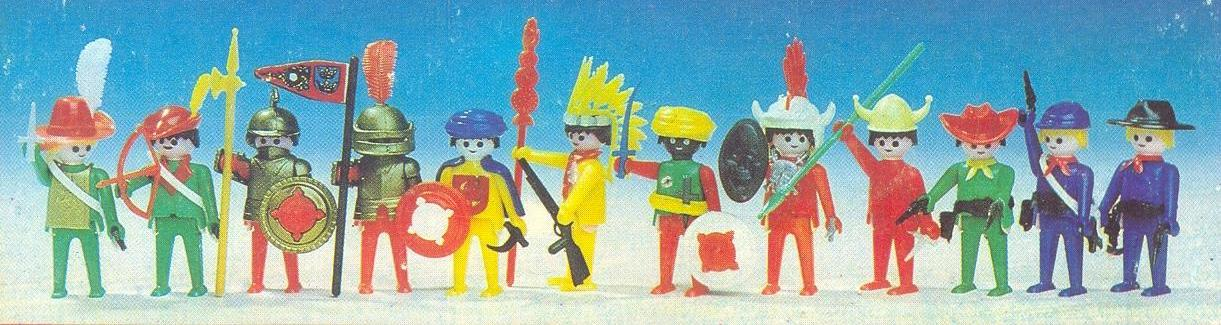 Schenk figures